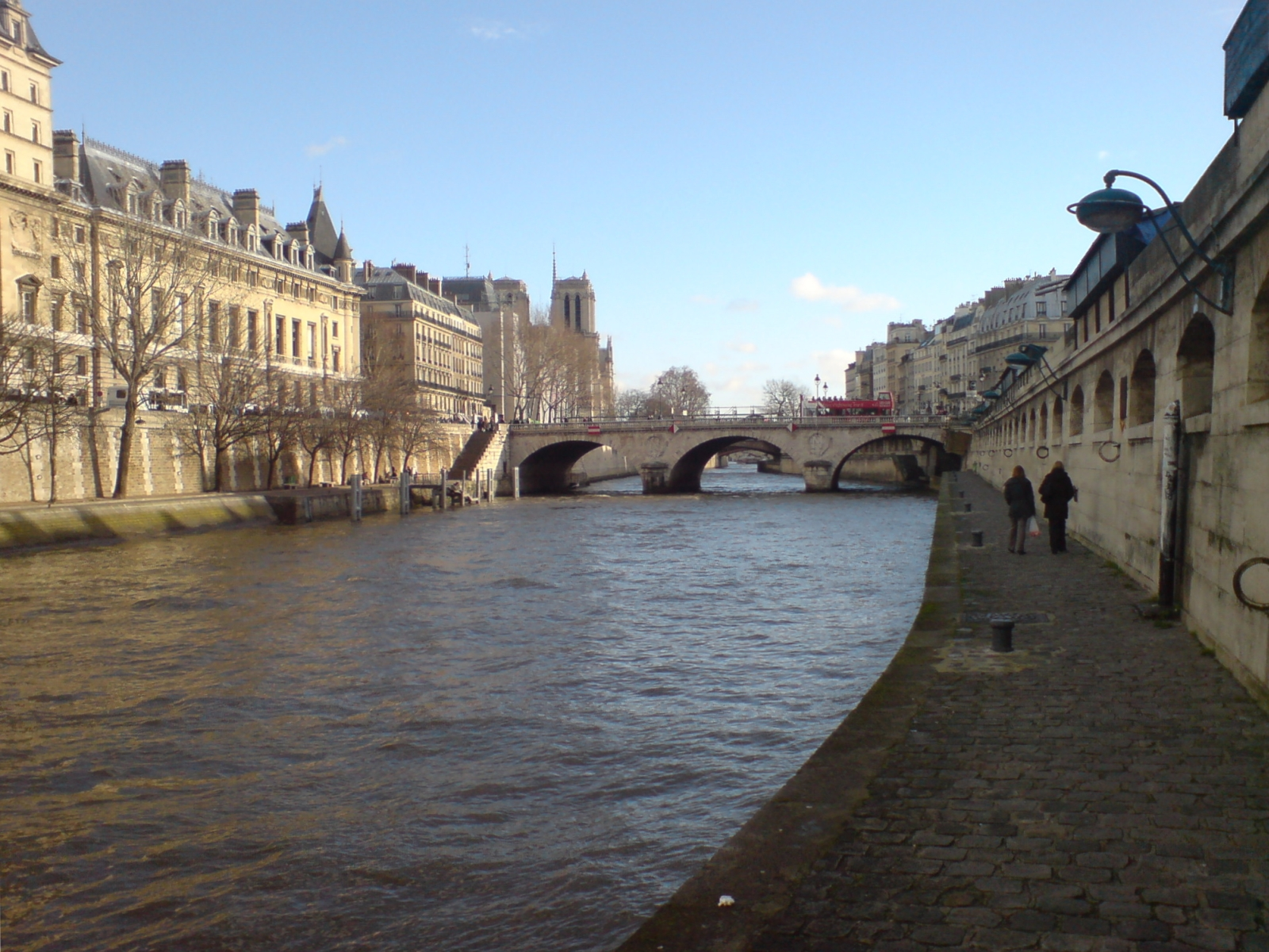 Walking eastwards on one of the embankments of the Seine in the centre of Paris, France.